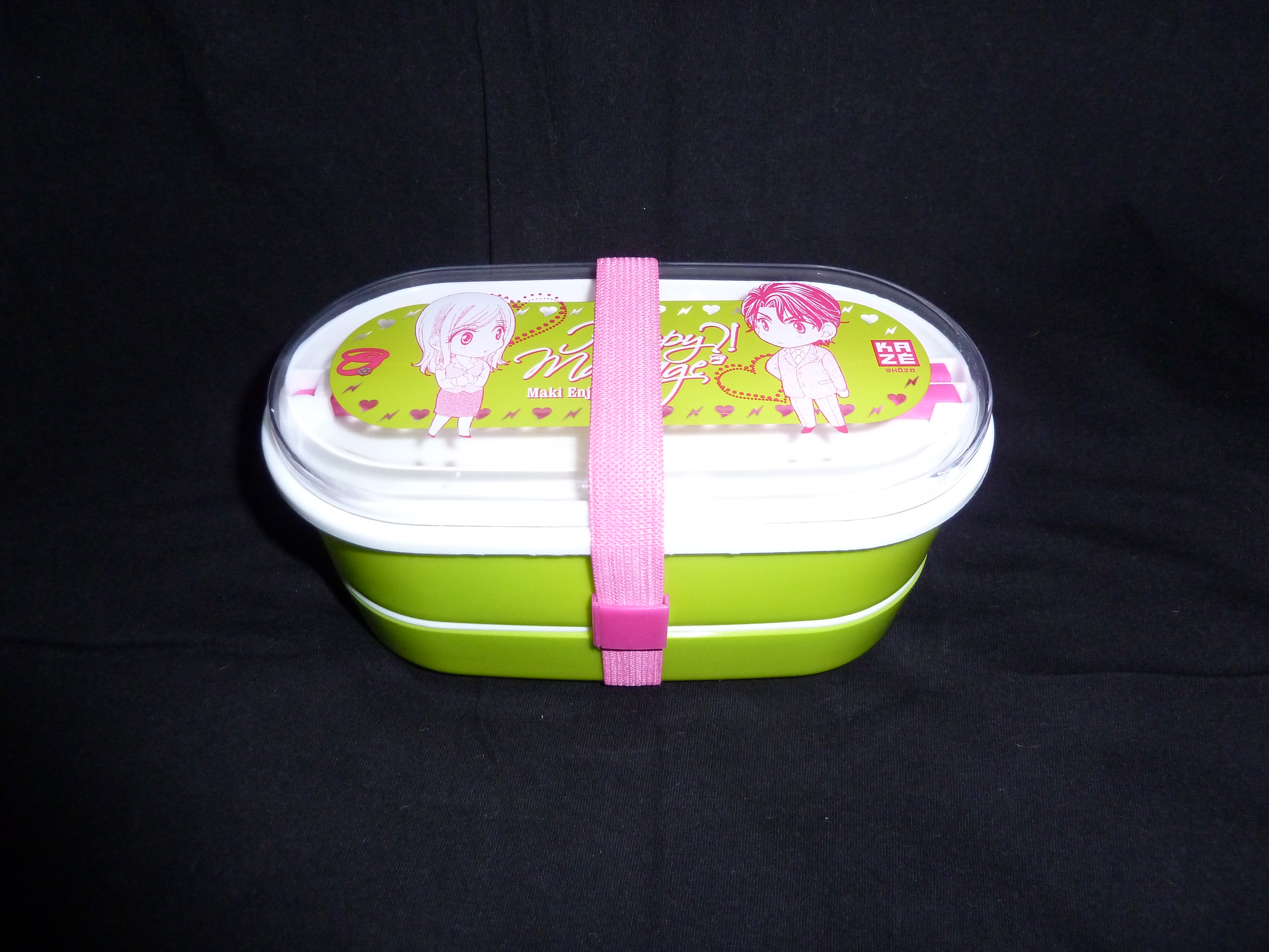 Bento box from manga Happy Marriage!?